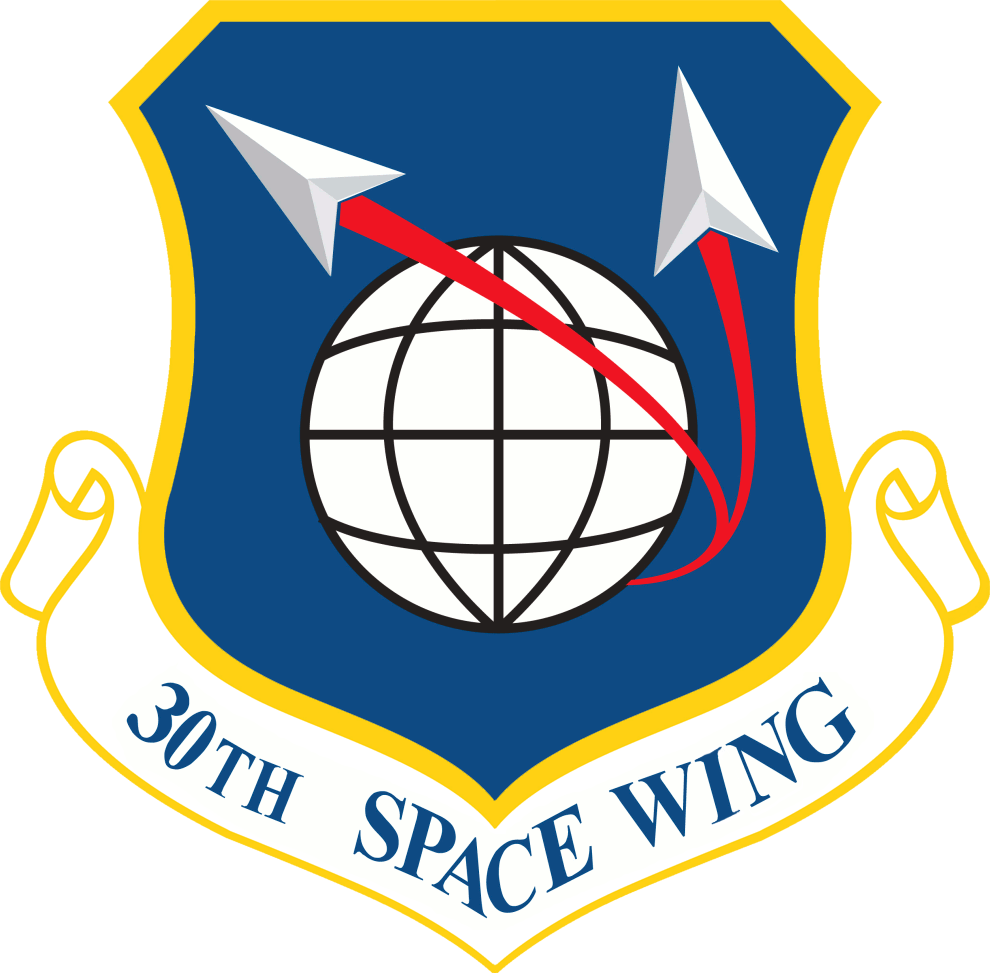 Emblem of the 30th Space Wing of the United States Air Force